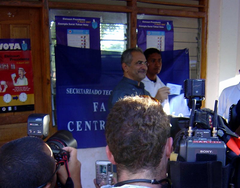 José Ramos-Horta votes at presidental election 2007